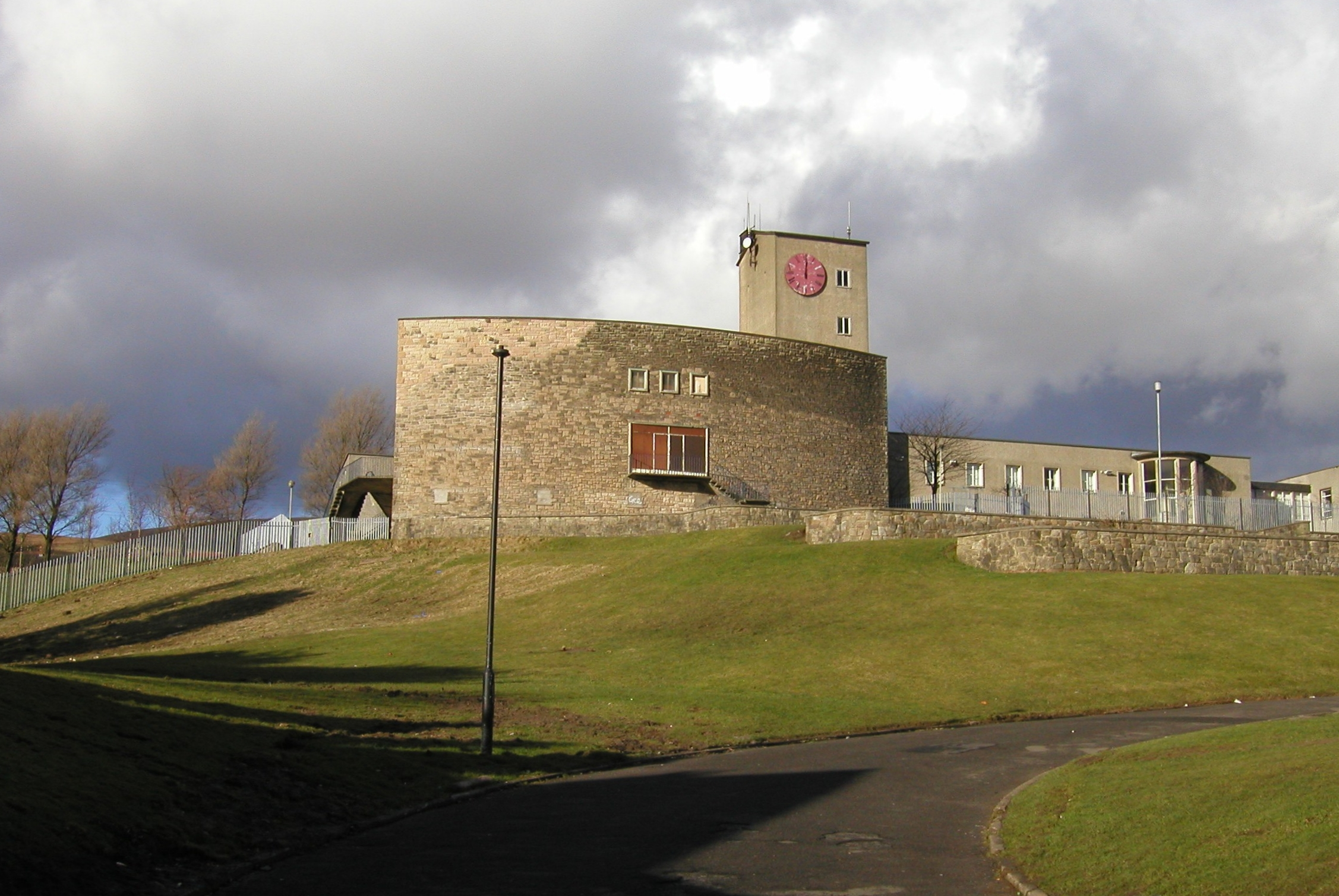 Kilsyth Academy from March 2003 Flickr